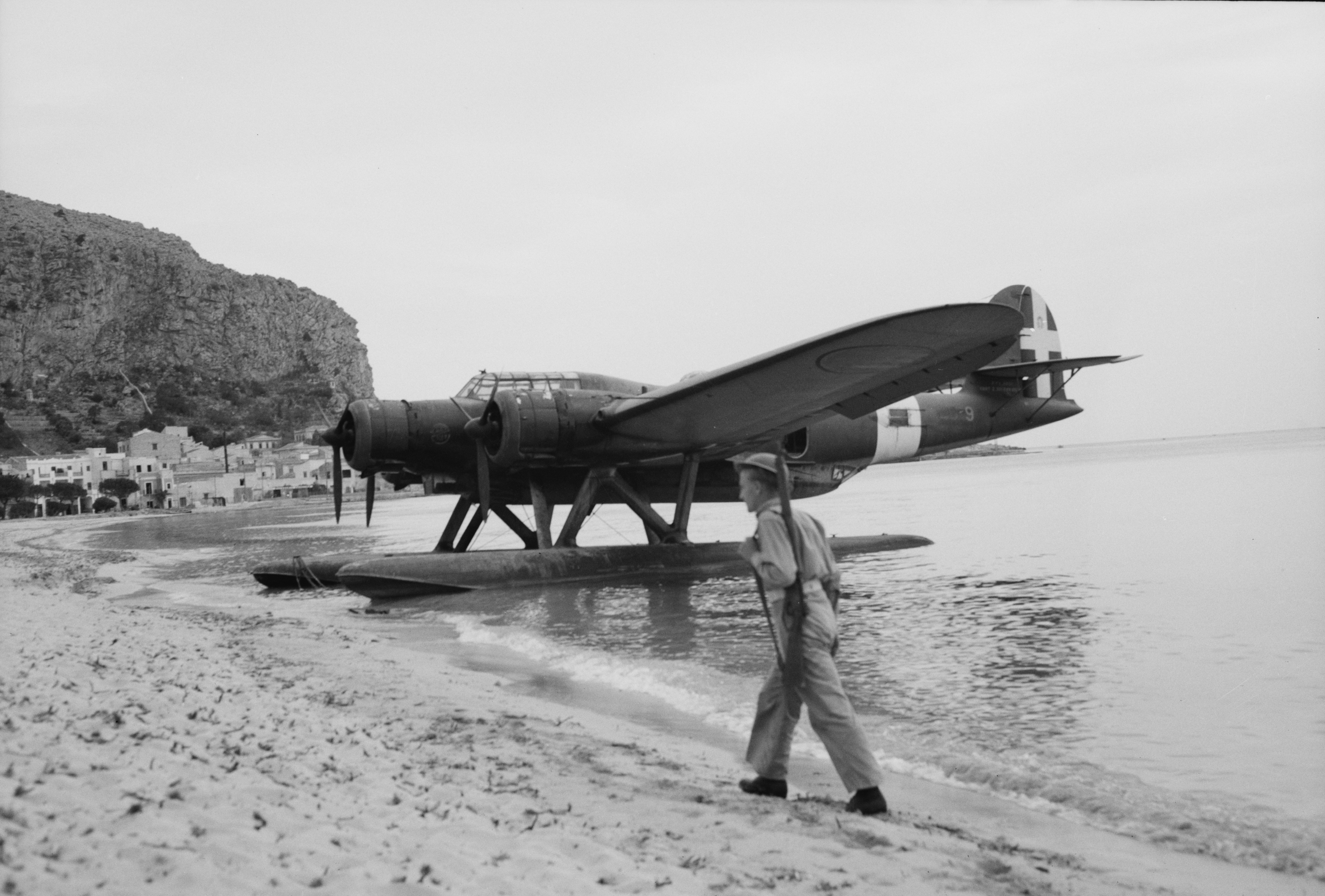 An Italian CANT Z.506 Airone seaplane on the Sicilian beach of Mondello, September 1943.